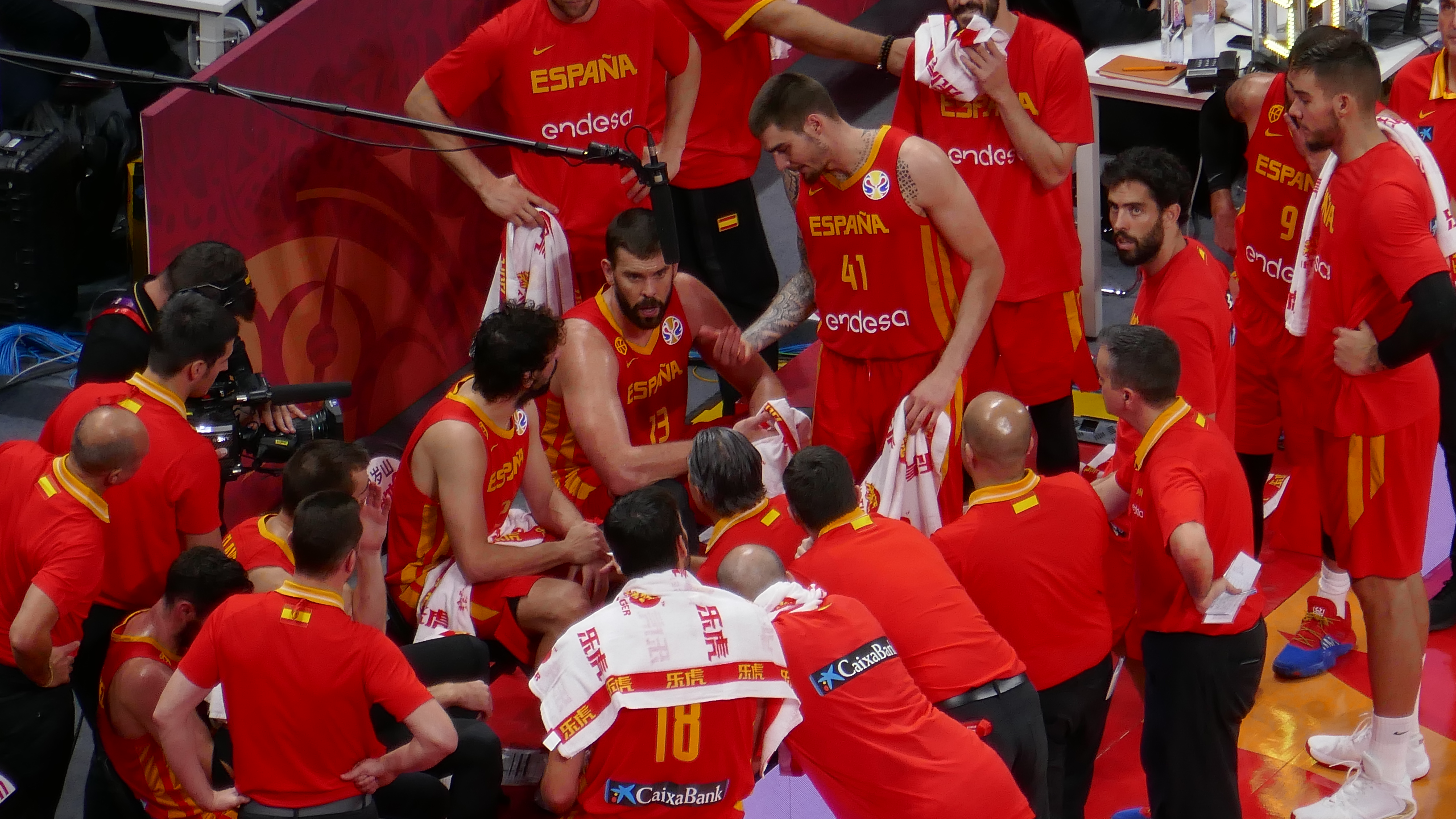 Players of the Spanish national basketball team during a time out in the 2019 FIBA Basketball World Cup Final.